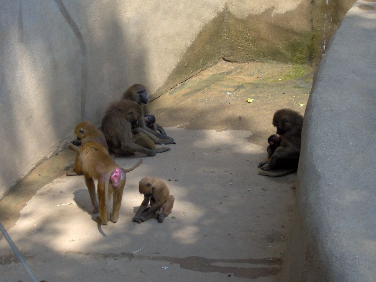 Papio papio in Parc zoologique de Paris.